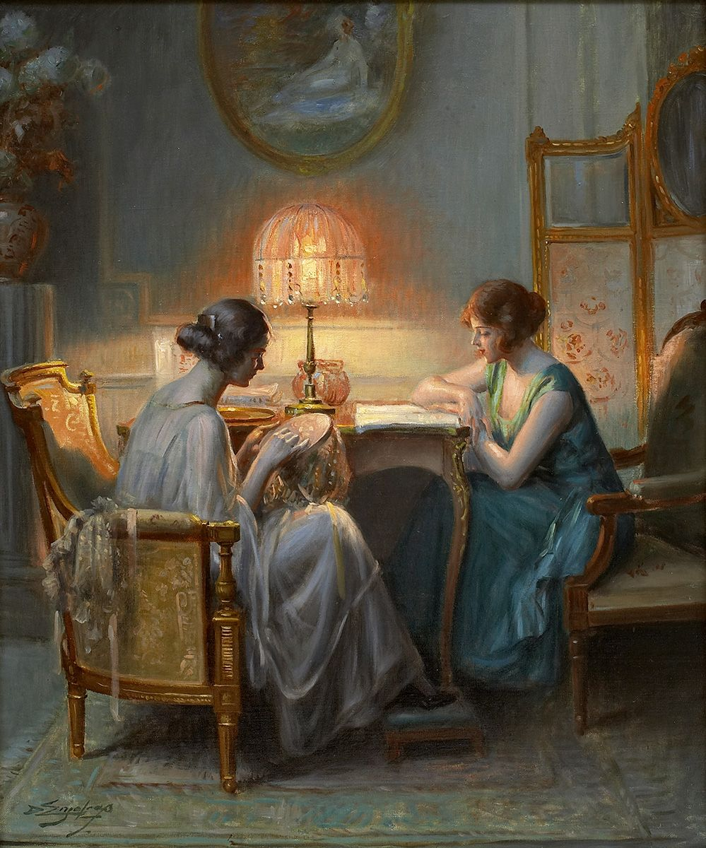 The Boudoir